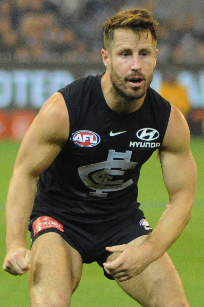 Matthew Wright during the AFL round five match between Carlton and West Coast on 21 April 2018 at the Melbourne Cricket Ground in Melbourne, Victoria.